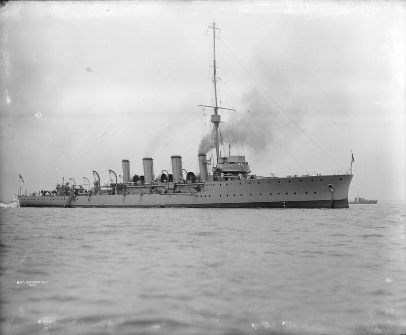 Photograph of British cruiser HMS Adventure.